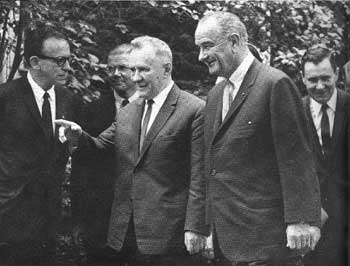 Soviet Premier Aleksei N. Kosygin and President Johnson during their meeting at Glassboro, New Jersey, in 1967. (National Park Service, Special Collection.)